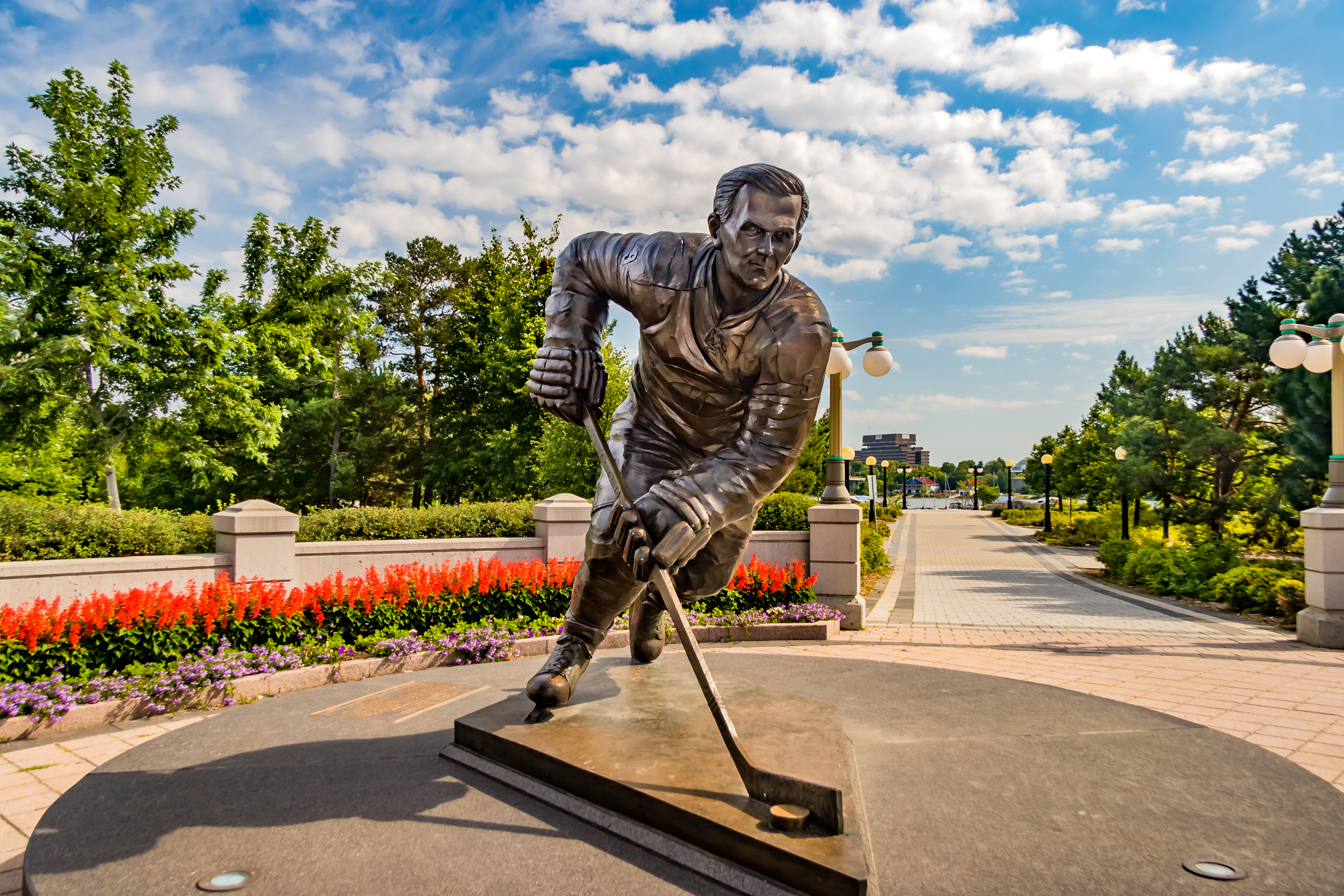 Joseph Henri Maurice "The Rocket" Richard, was a French-Canadian professional ice hockey player who played for the Montreal Canadiens of the National Hockey League (NHL) from 1942 to 1960.